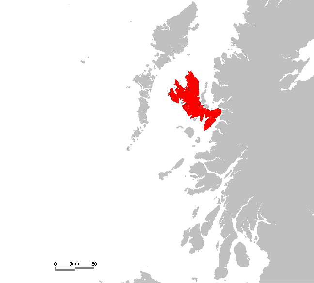 UK Skye.PNG (Scotland, Hebrides)